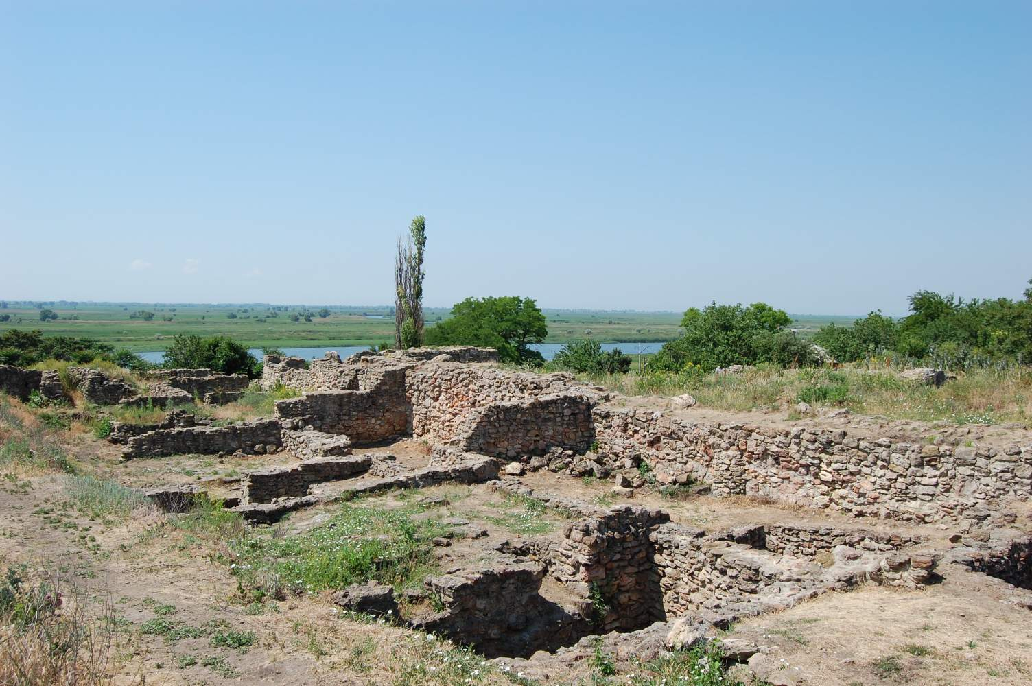 The archeological reservation "Tanais". The place of excavations.